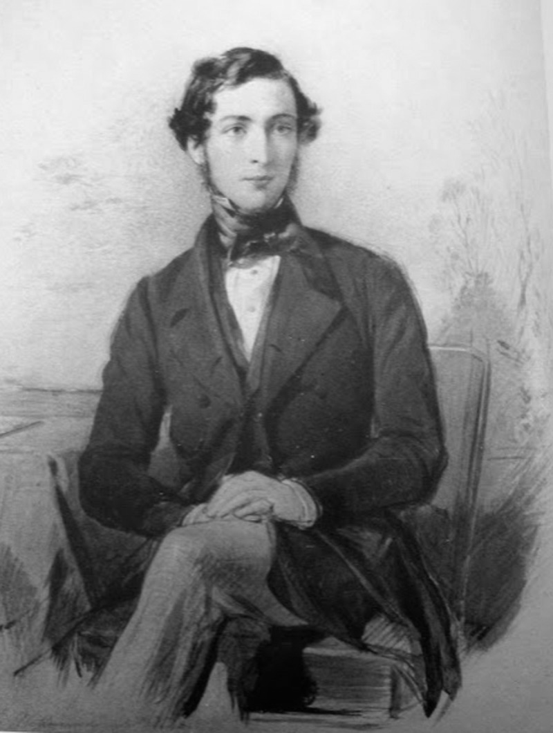 John Battersby Harford, owner of Falcondale House, Lampeter, Wales